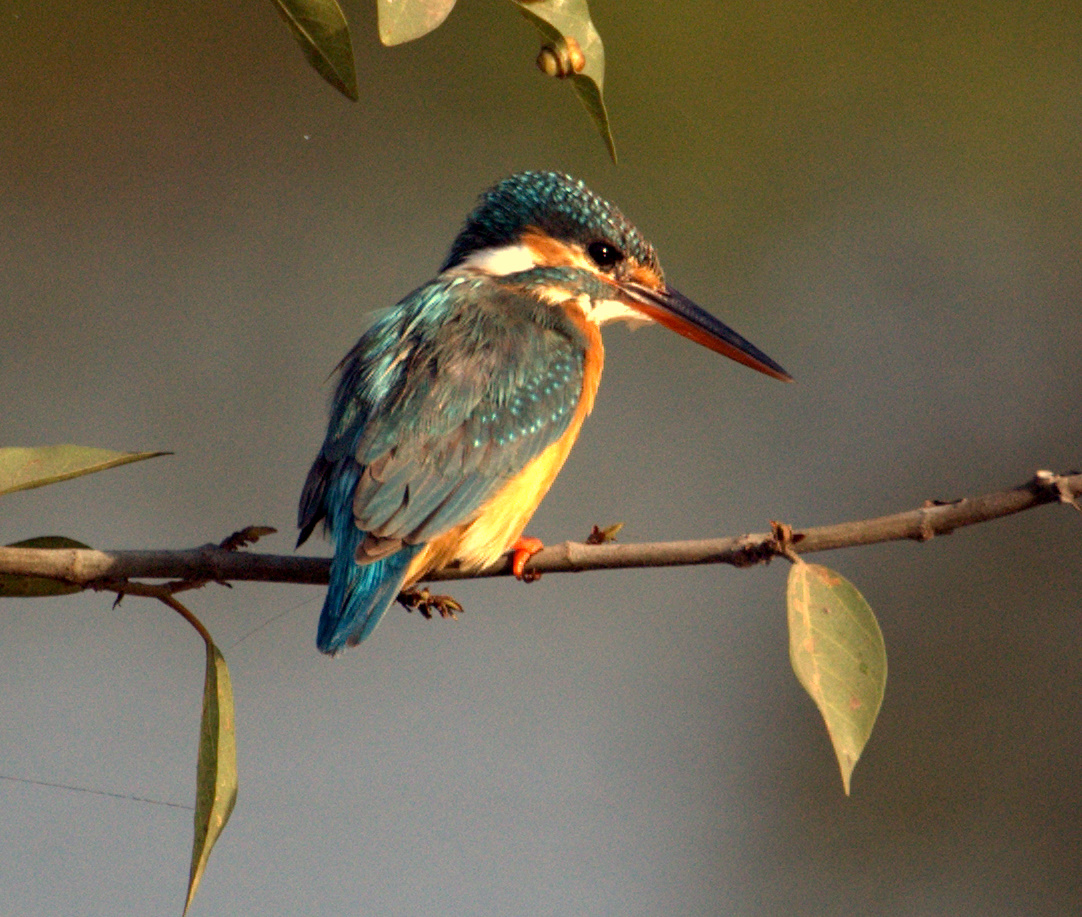 Common Kingfisher : Alcedo atthis